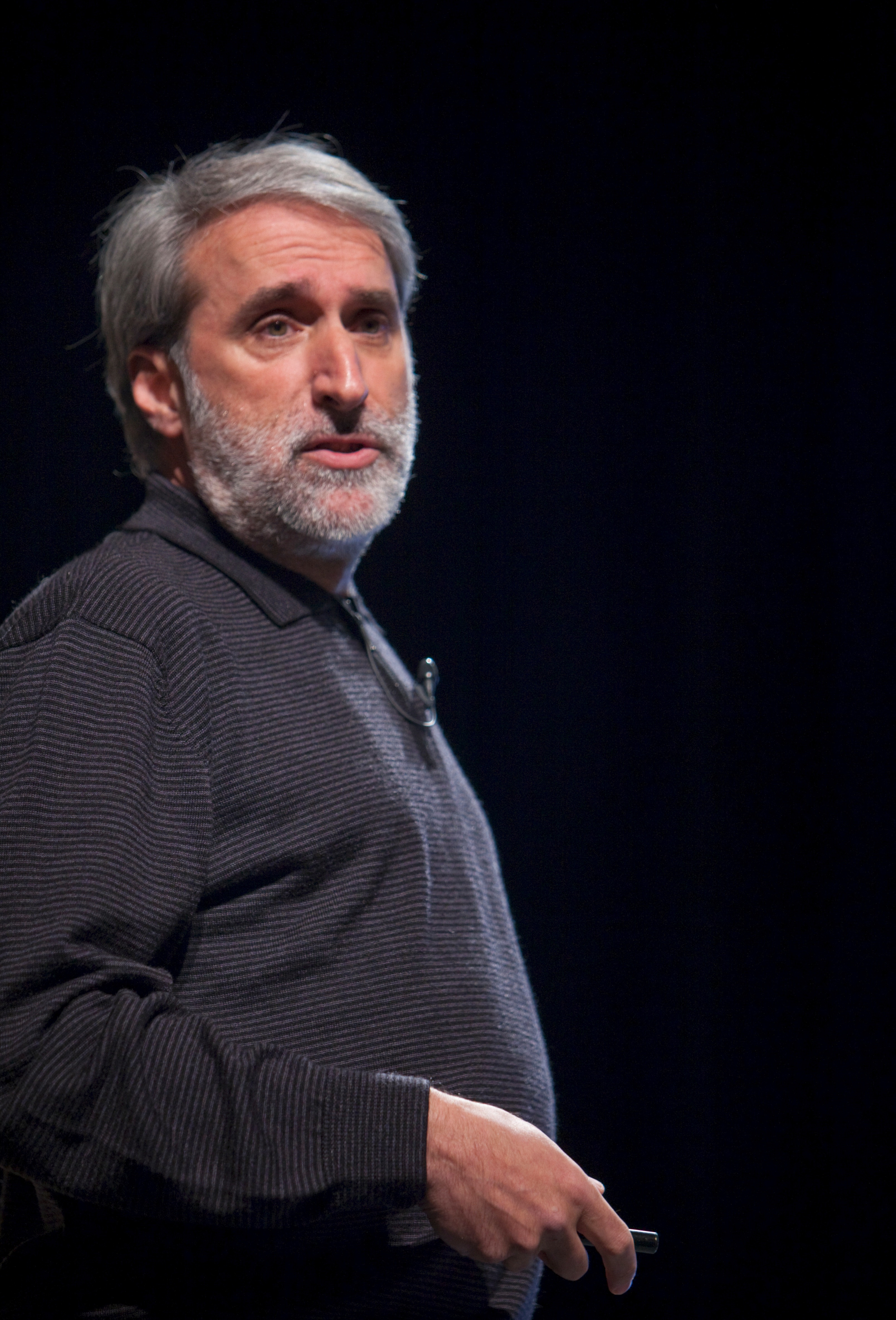 Professor Daniel G. Nocera at PopTech 2009